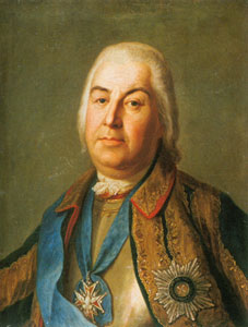 Portrait of Pyotr Saltykov (1697–1772)